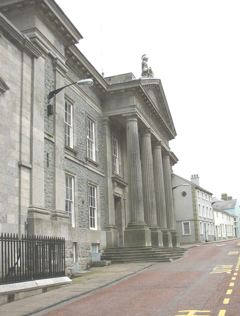 Caernarfon Crown Court. The Crown Court stands in Pen Deitsh opposite the castle. It was built in 1850. The statue of Justice stands on top of the portico.